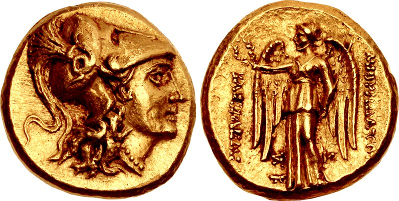 Coin of Mithridates III of Pontus, Amisos mint.